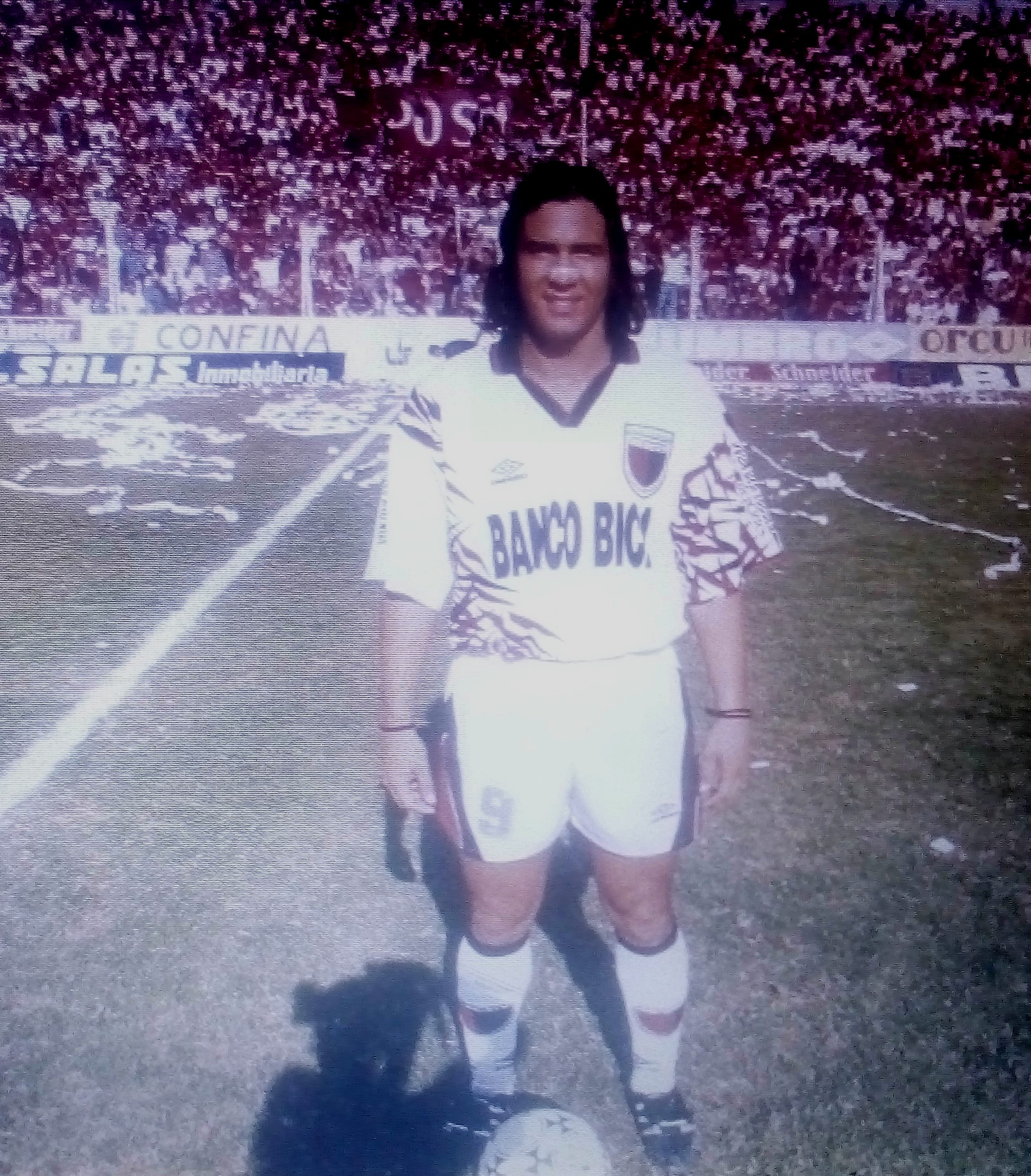 footballer of the colon of santa fe